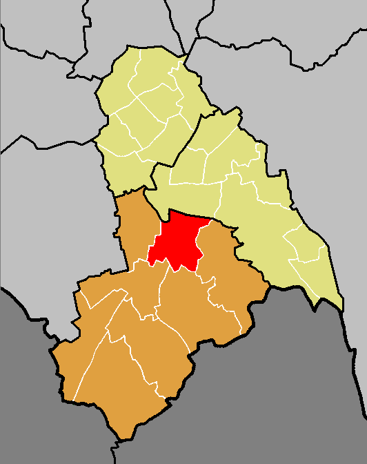 The ward of Croham (red) shown within the Croydon North constituency (orange) within the London Borough of Croydon (yellow).